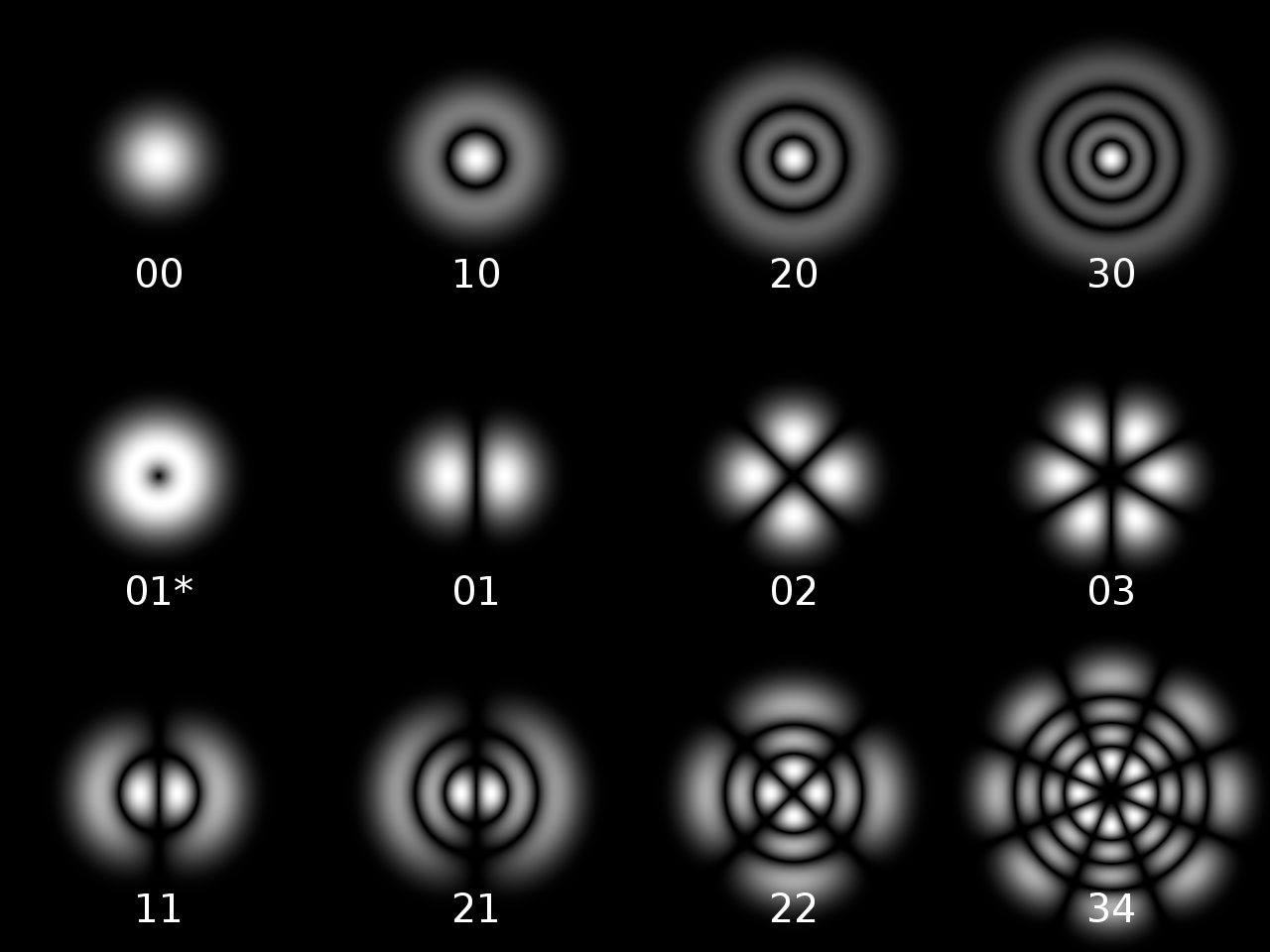 Laguerre-Gaussian transverse mode patterns. Bigger and better version created with the help of the Python script below